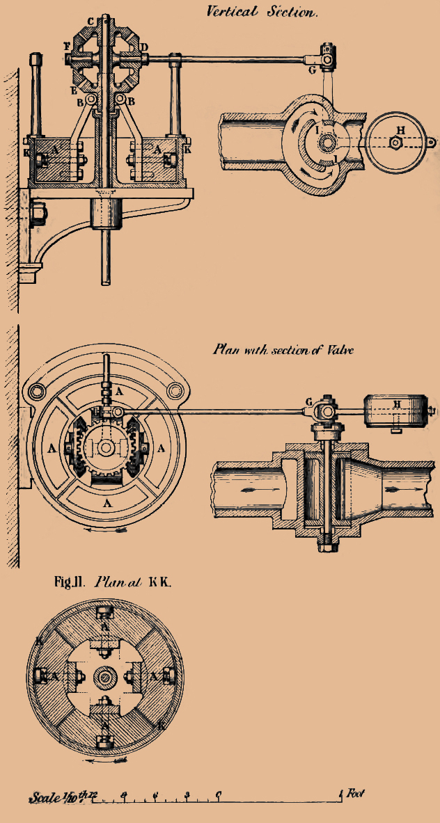 Siemens governors, improved version, On an Improved Governor for Steam Engines as detailed on pages 75-87 and Plates 15-18 of the said proceedings. Picture is a rearanged version of plate 18.